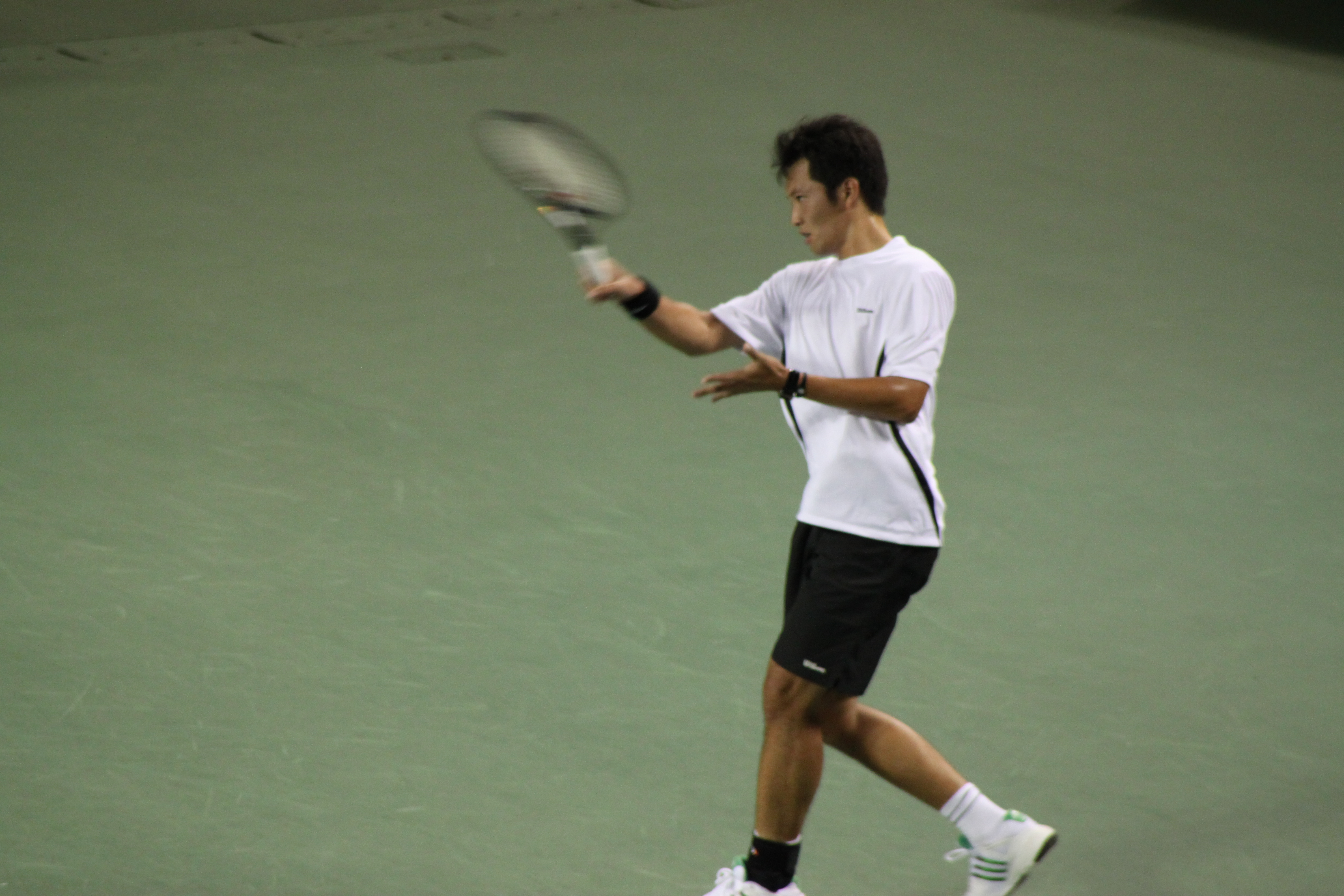 A tennis player from Japan, 伊藤竜馬(Tatsuma Ito)